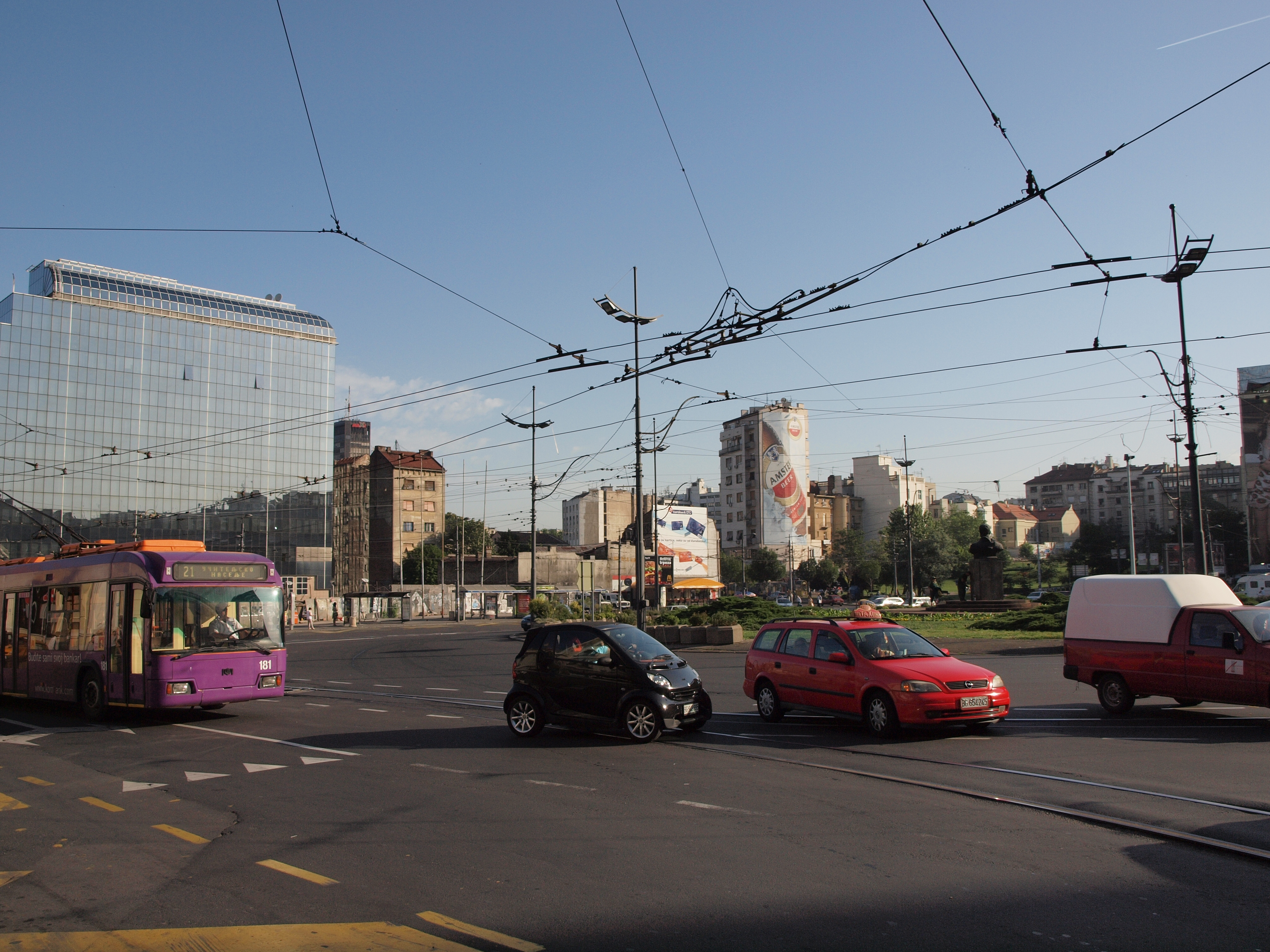 Slavija square Belgrade, Serbia